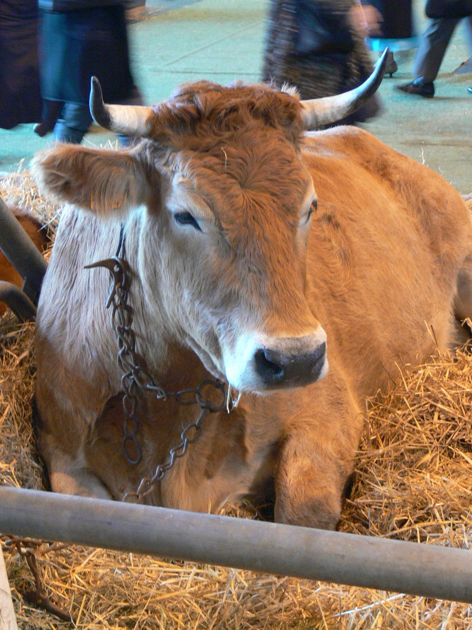 Nantaise cow at the agriculture show (Paris) in 2008